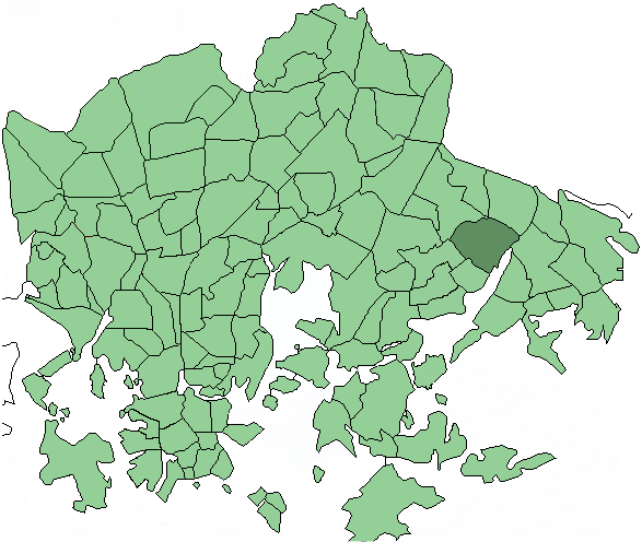 A map of Helsinki highlighting Vartioharju